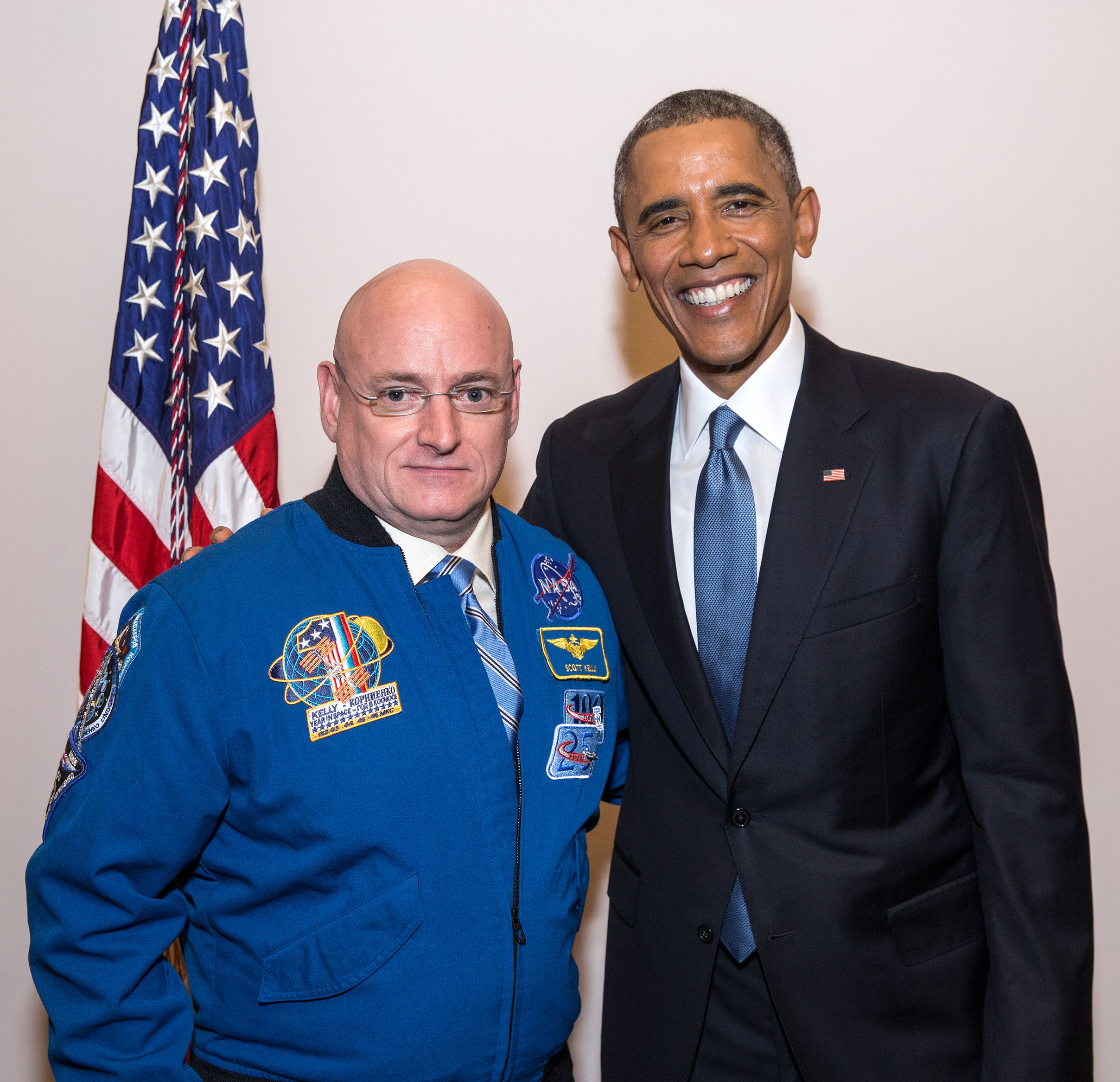 President Barack Obama greets First Lady's box guest Scott Kelly following President Obama’s State of the Union address at the U.S. Capitol in Washington, D.C., Jan. 20, 2015.